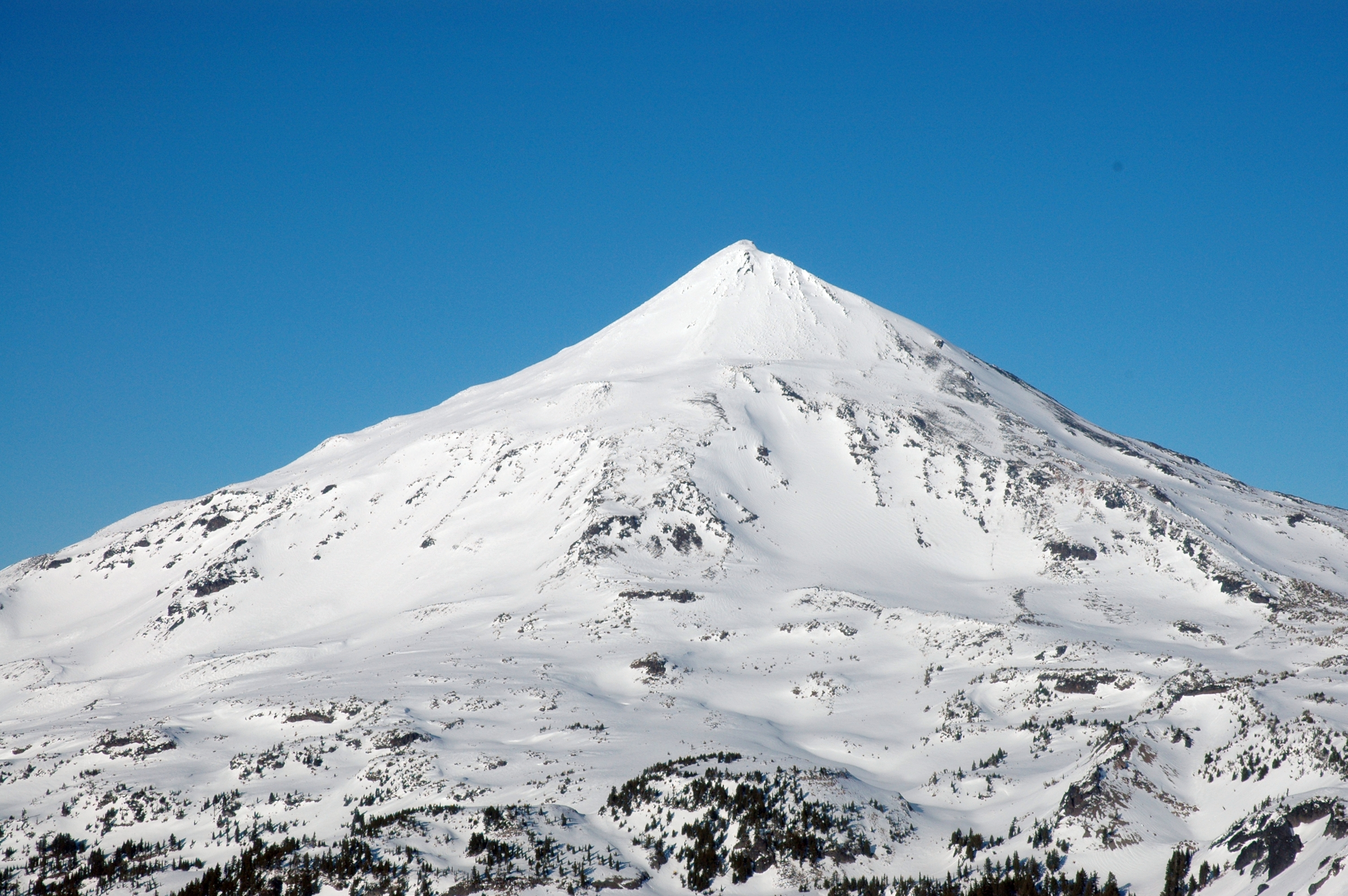 Middle Sister in the central Oregon Cascades as seen from the north, between it and North Sister